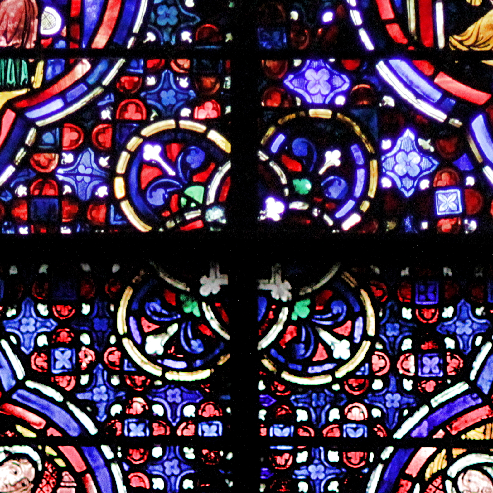 Stained window in Chartres cathedral - bay 14 - Vie de Saint Nicolas. Fragment of File:Chartres 14 -color ajusted.jpg.